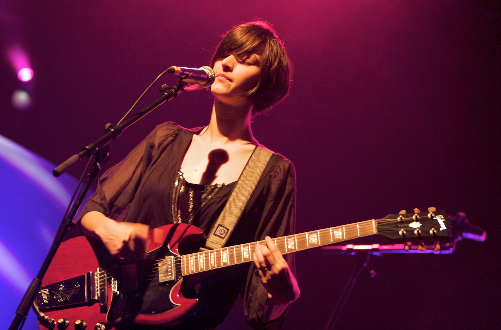 Pauline Croze in 2008.